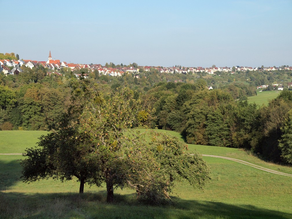 Weil im Schönbuch, Germany, viewed from the south